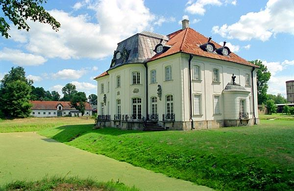 Branicki's summer residence in Choroszcz, Poland